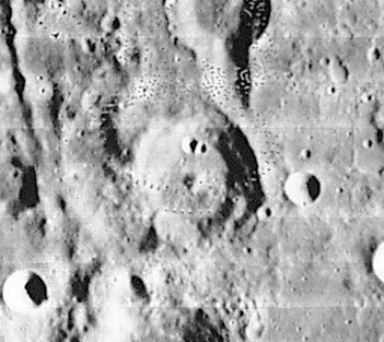 Argelander crater